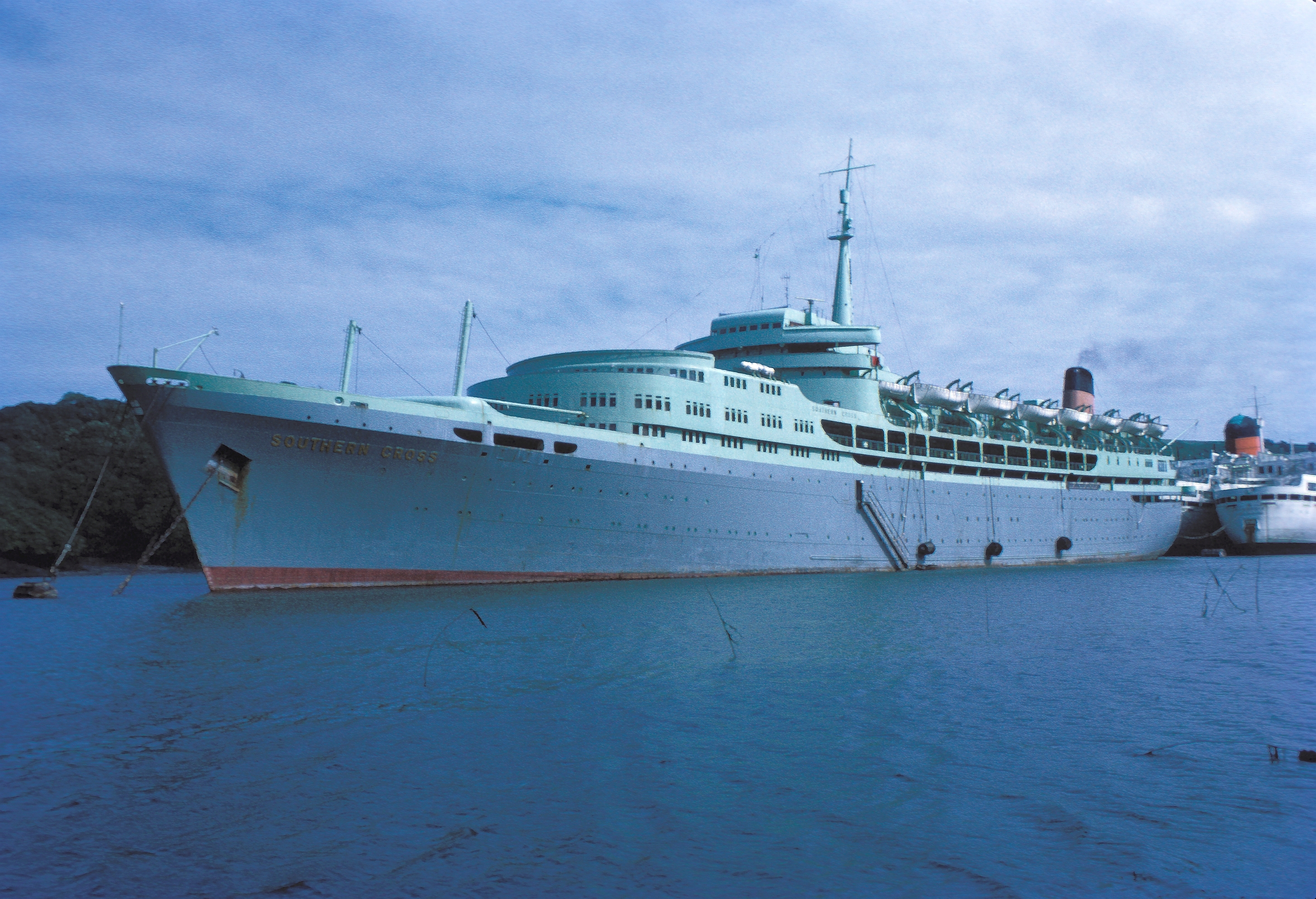 The cruise ship Southern Cross laid up on River Fal.